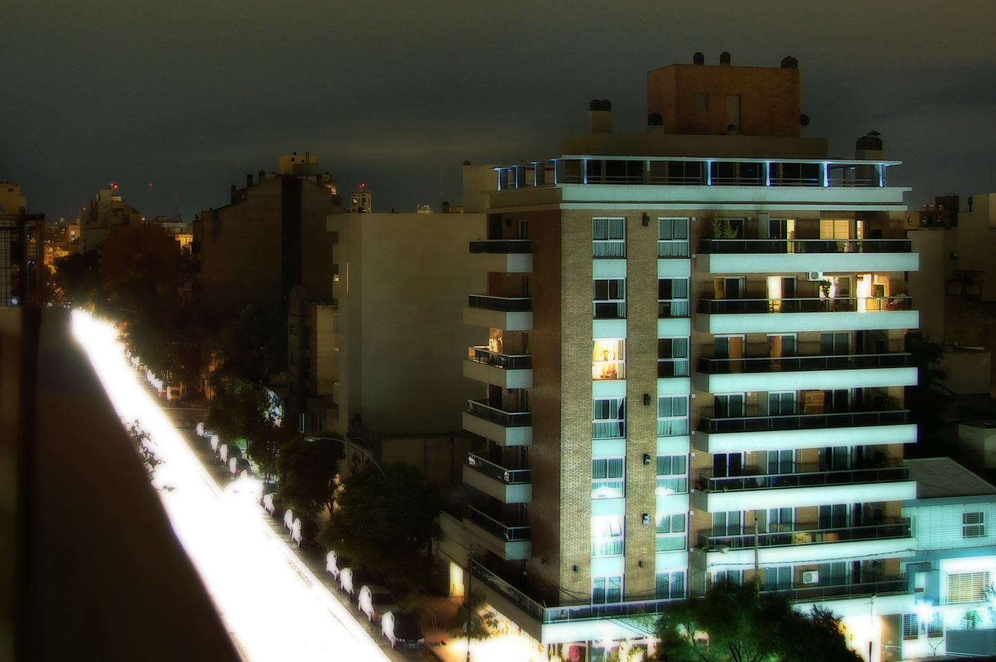 24 de Septiembre avenue. General Paz neighborhood. Cordoba, Argentina.